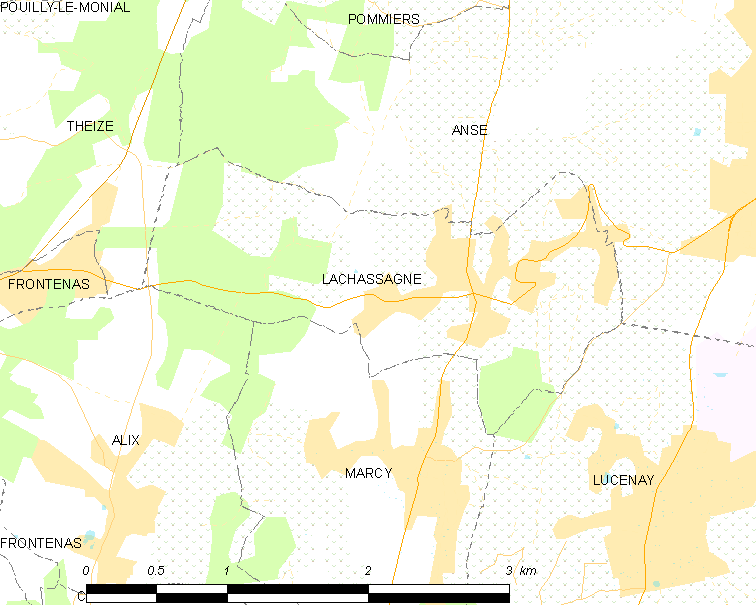 Map of French municipality